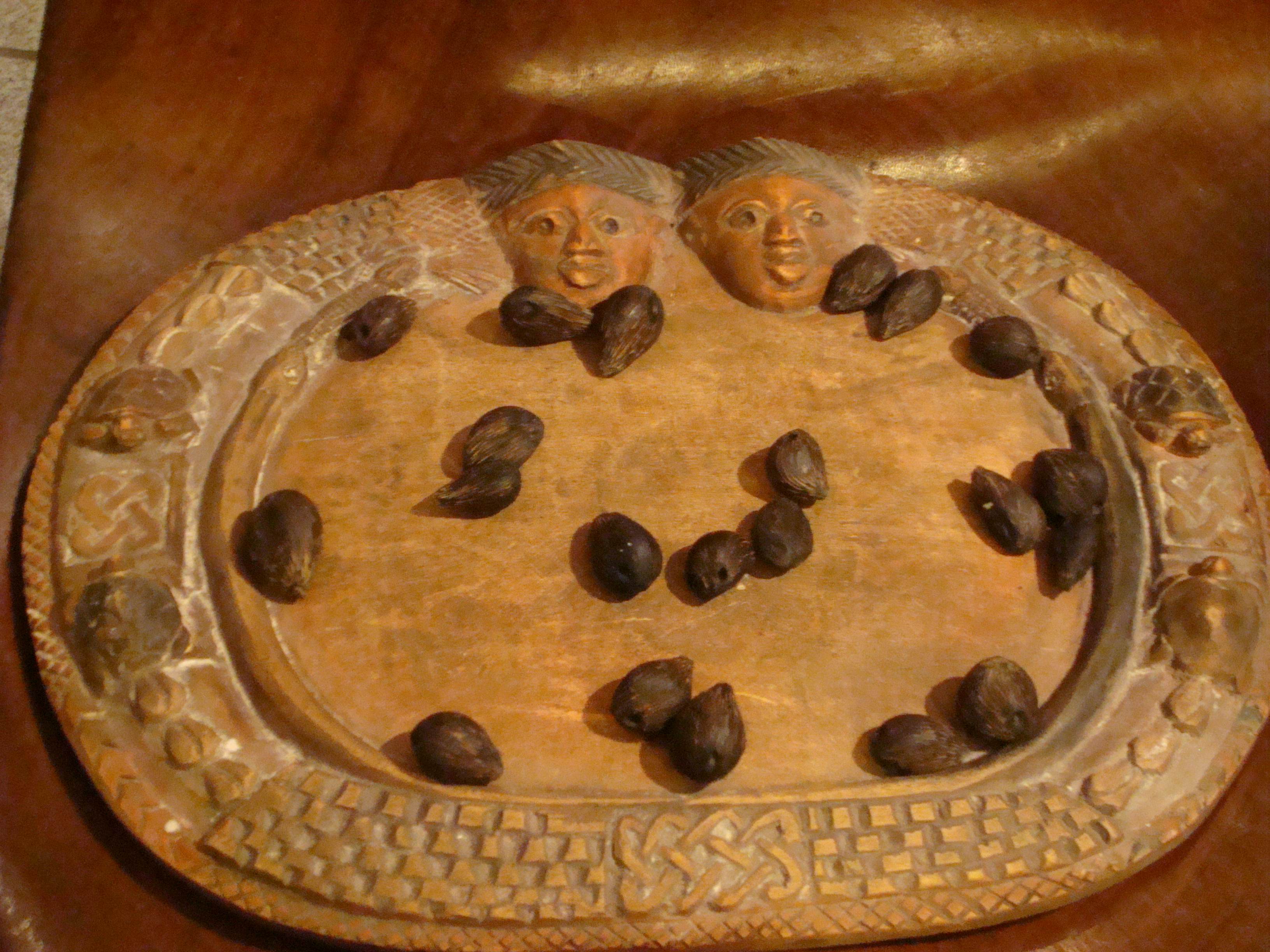 Ikin Orossi game